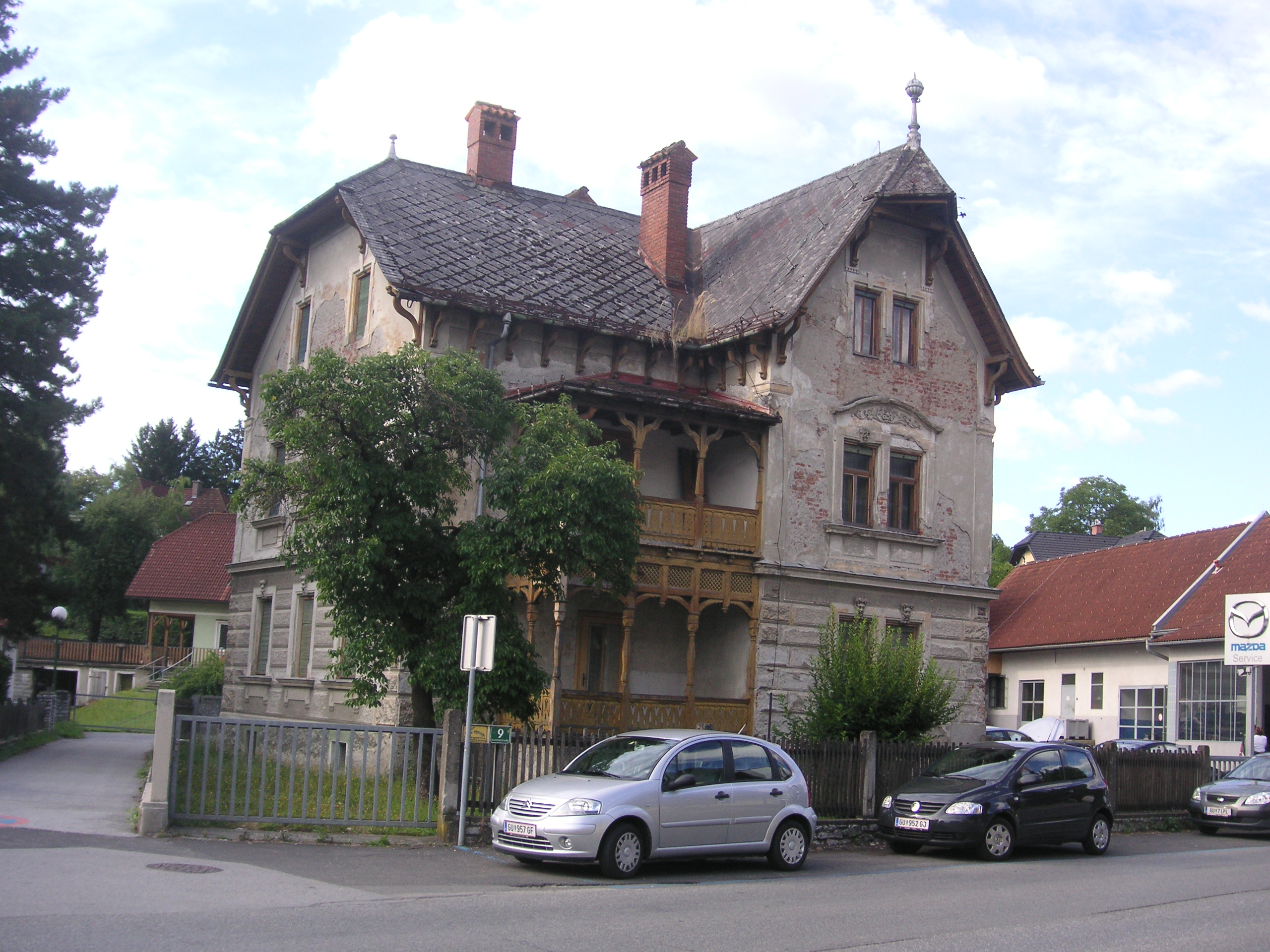 The so called "Ligg-Villa" in Gratwein, Styria, Austria